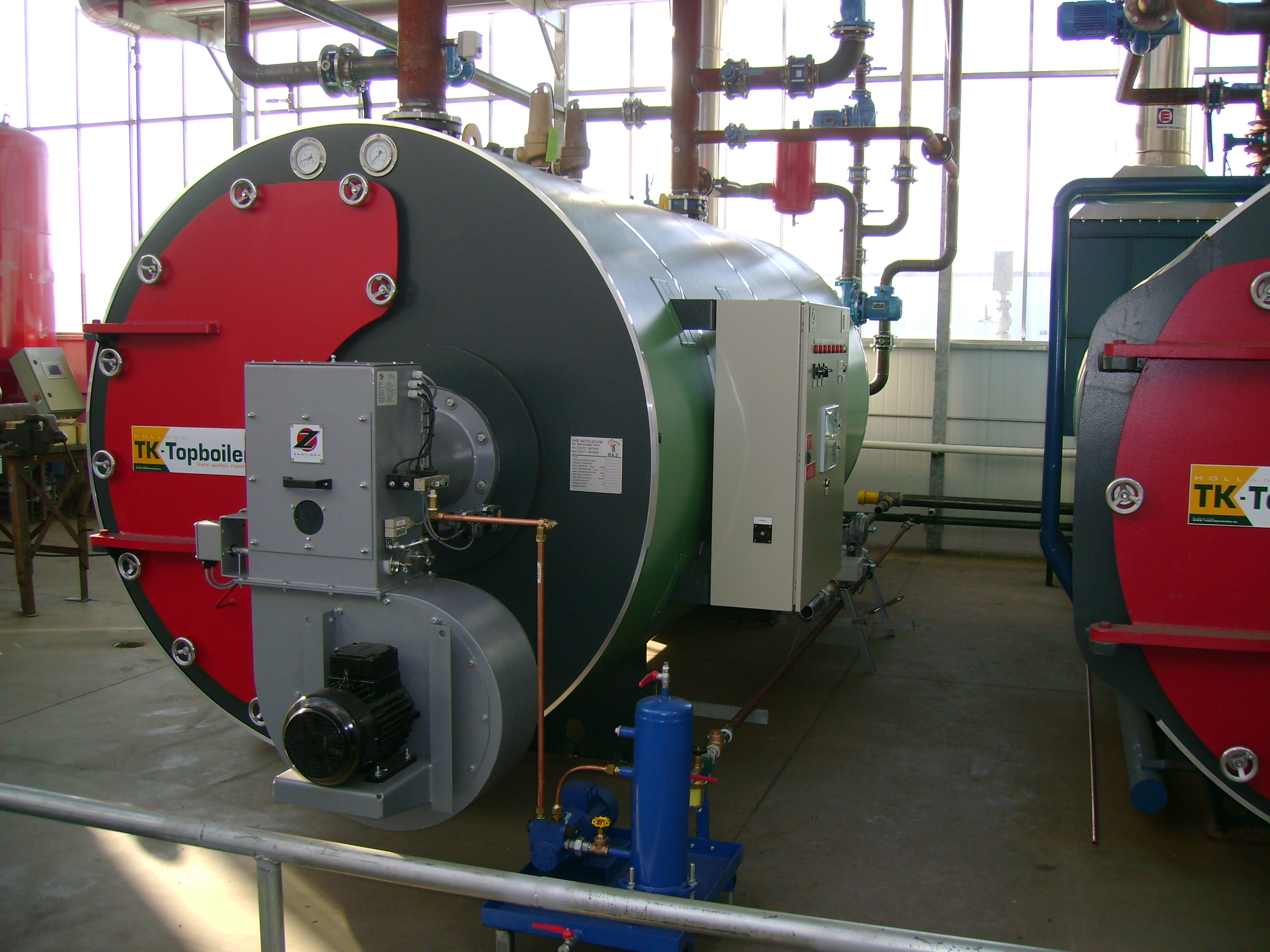 Zantingh Gas-Oil burner